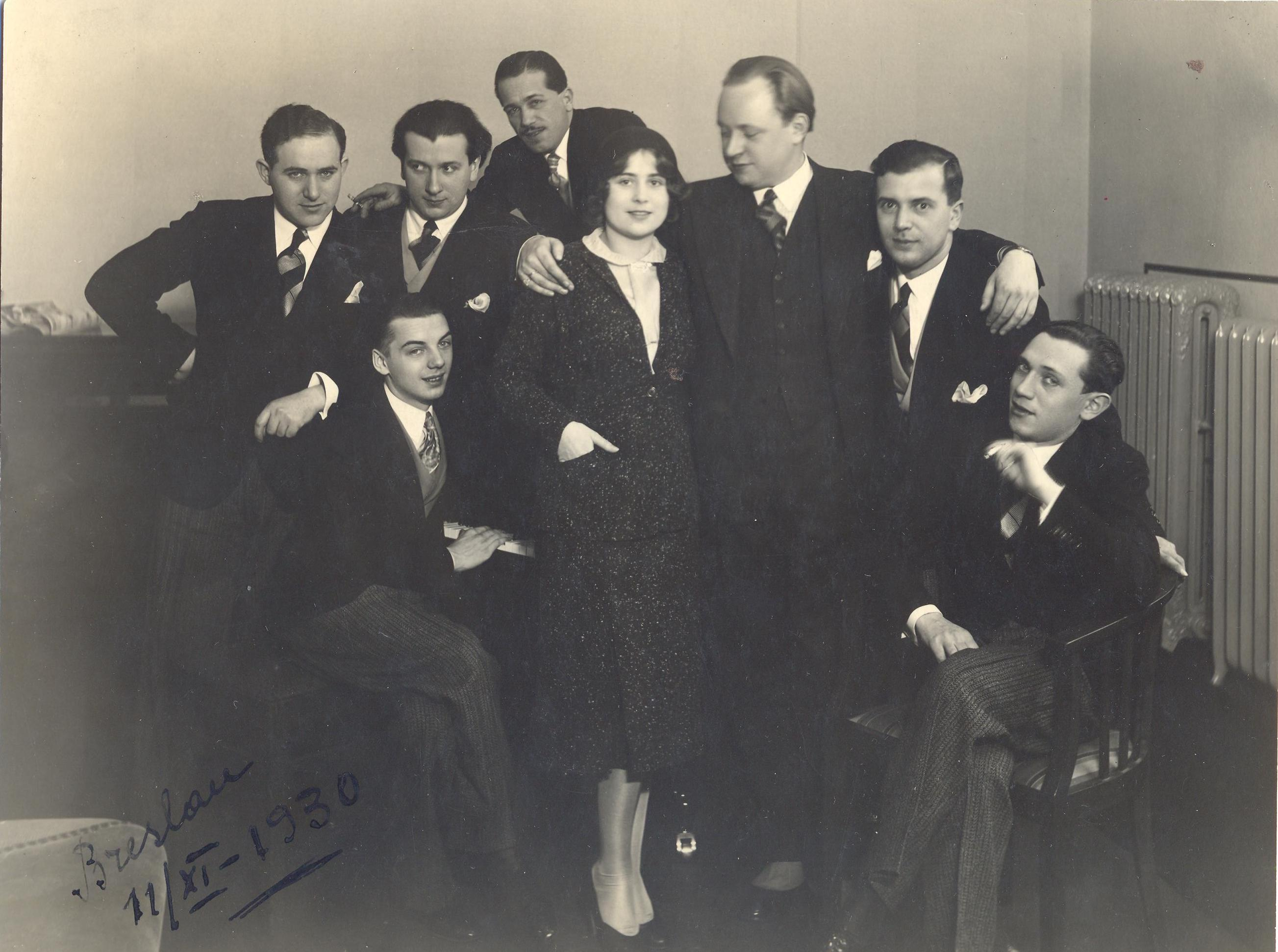 Comedian Harmonists, Breslau, 11.11.1930